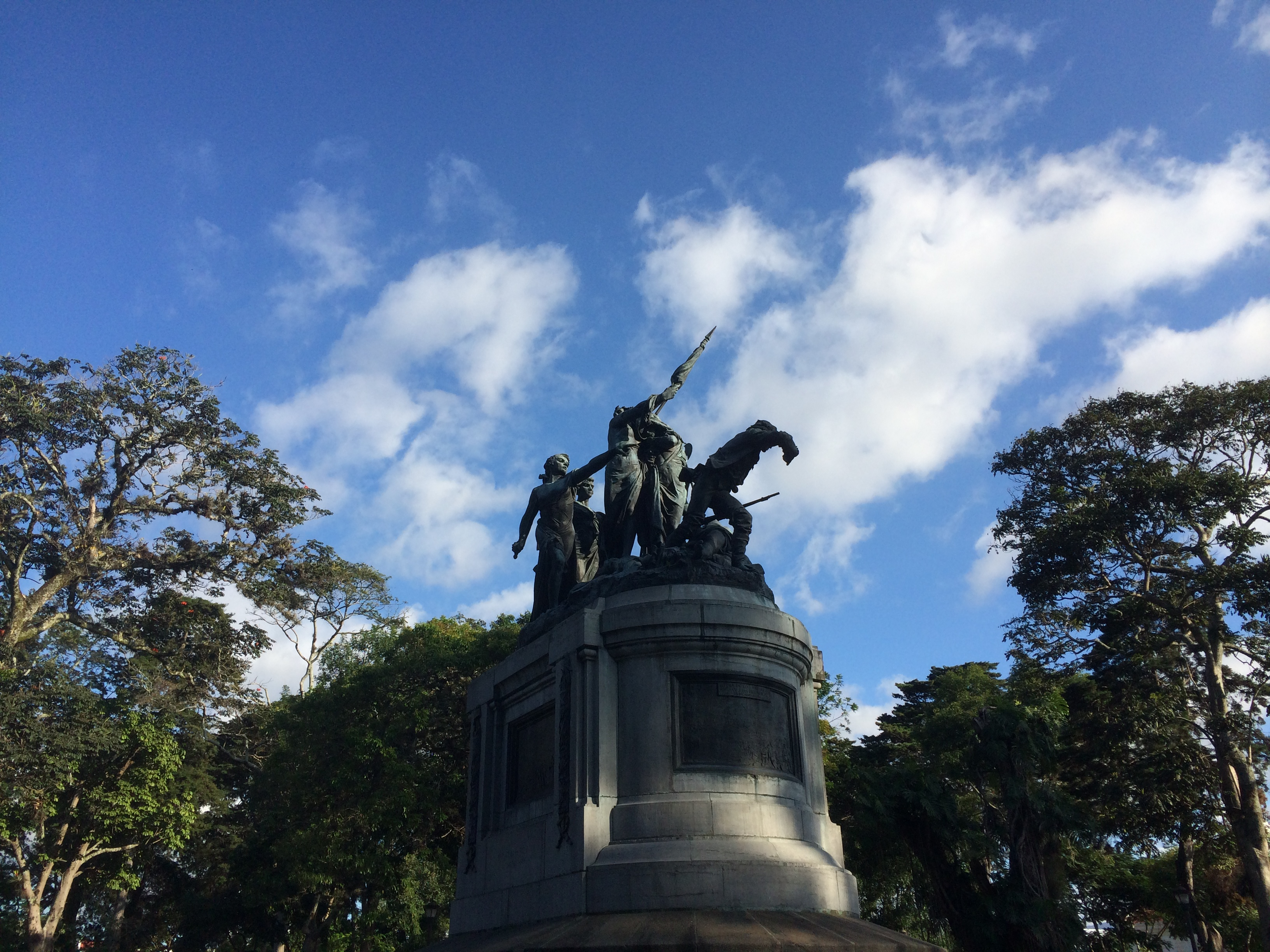 Costa Rican National Monument Dec 2015